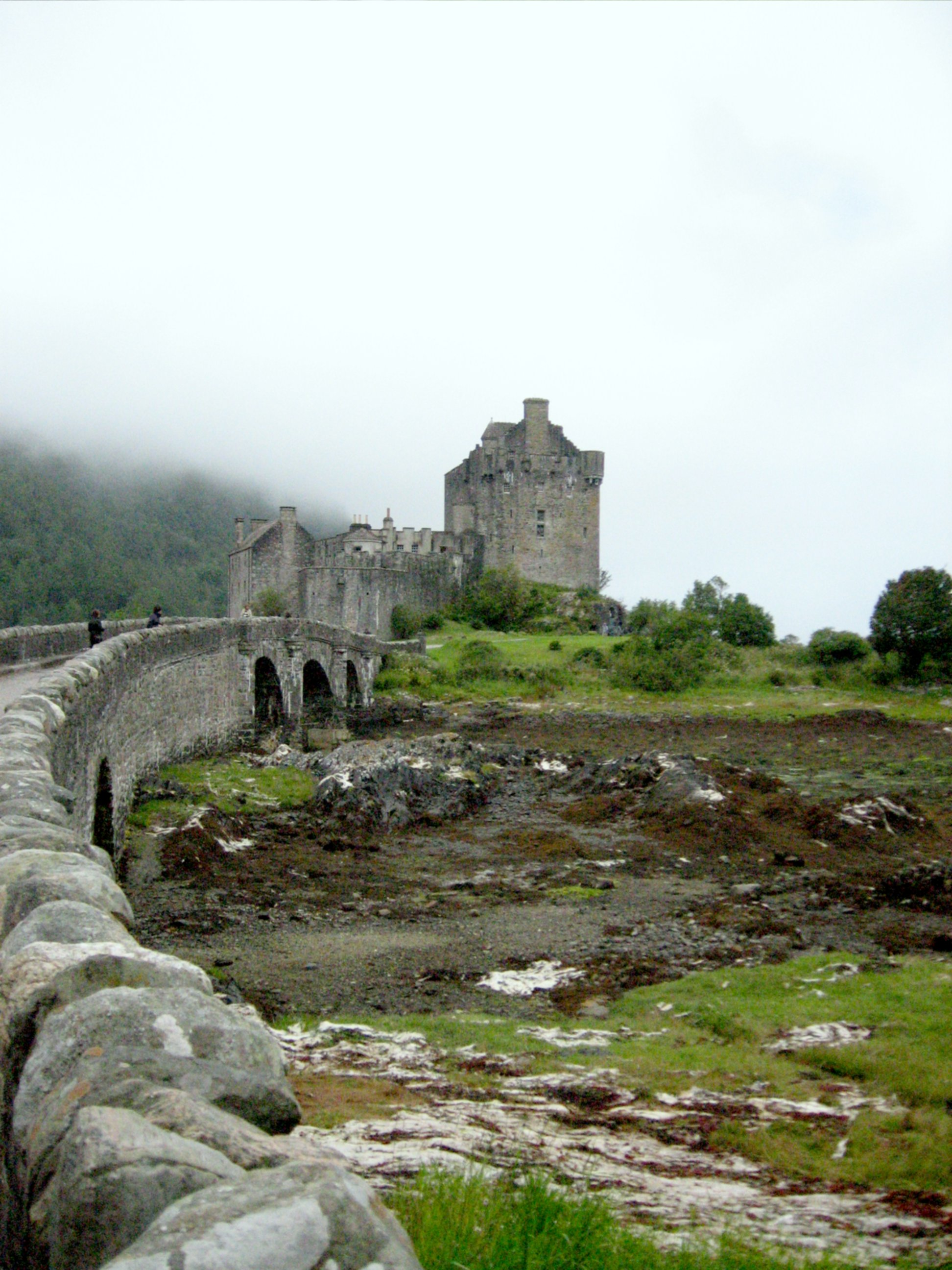 Eilean Donan Castle at Loch Duich in the Scottish Highlands